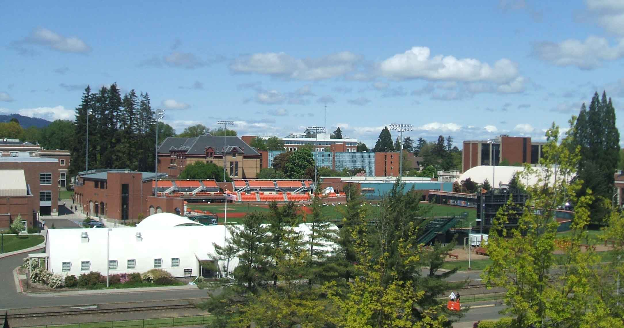 Photo of Goss Stadium, Oregon State University. Taken by Joe Maguire on May 14, 2009. Photo from the parking garage next to Reser Stadium.